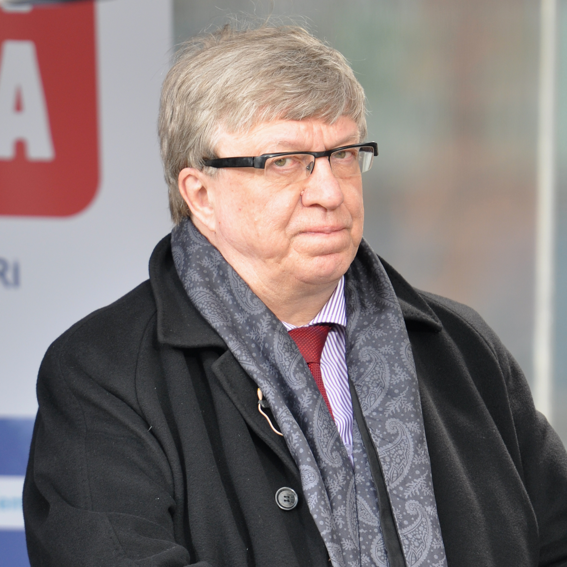 Timo Laaninen is a Finnish politician.